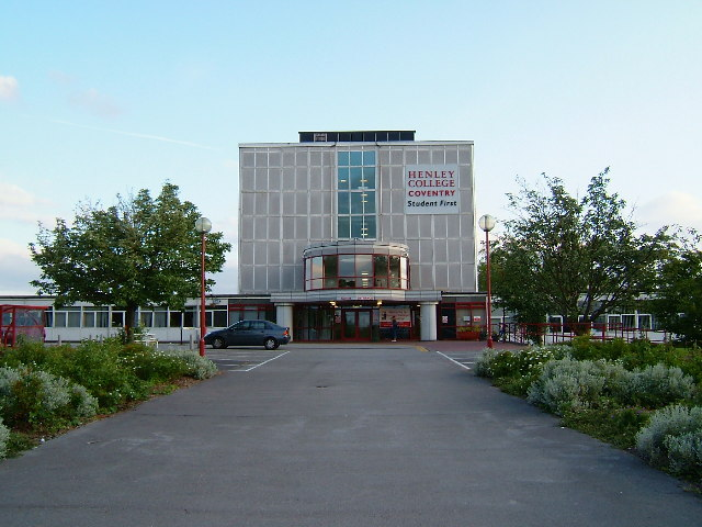 Henley College. Further Education College on the North side of Coventry